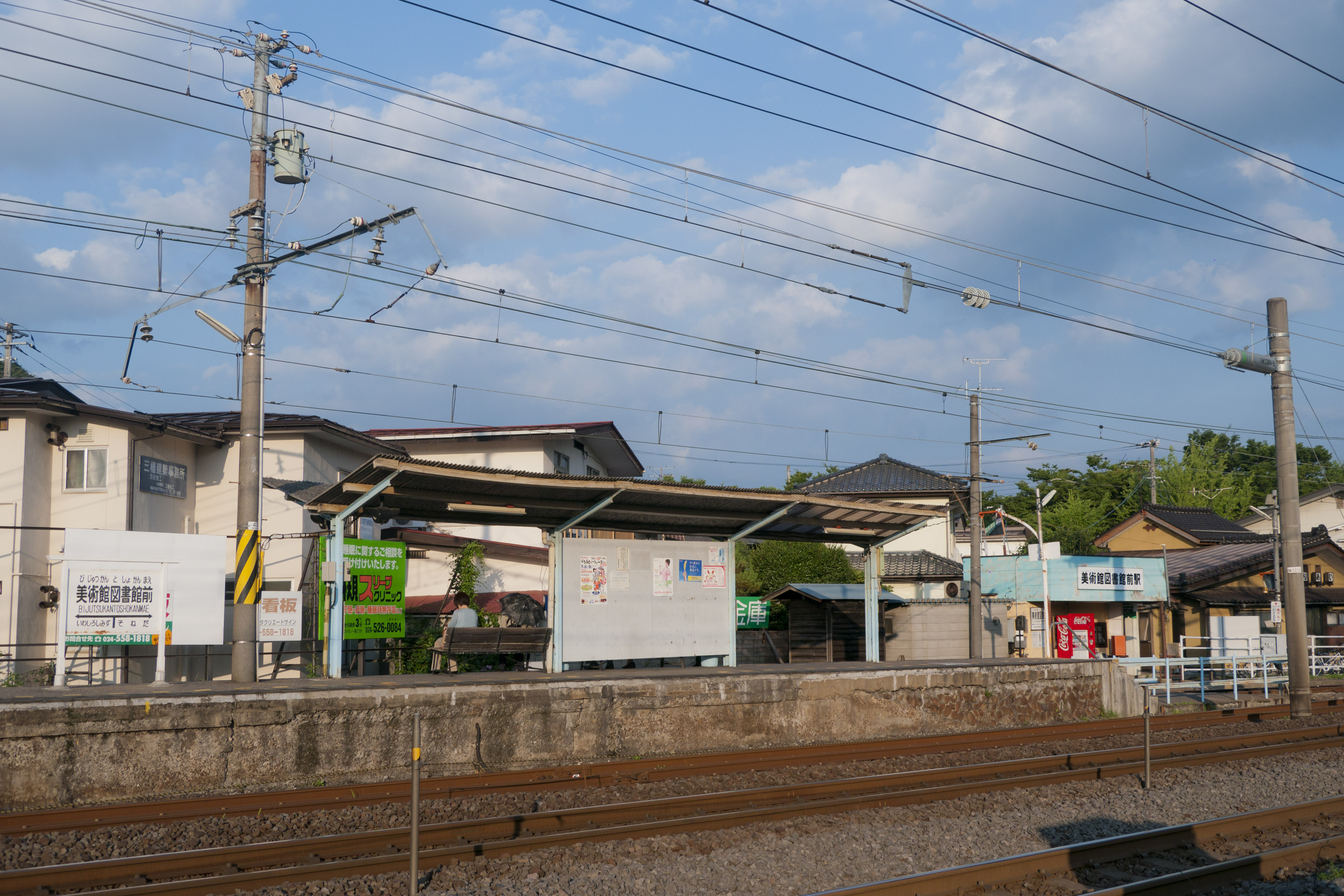 Fukushima Kotsu Iizaka Line Bijutsukan-Toshokanmae platform in Fukushima City, Fukushima Prefecture, Japan